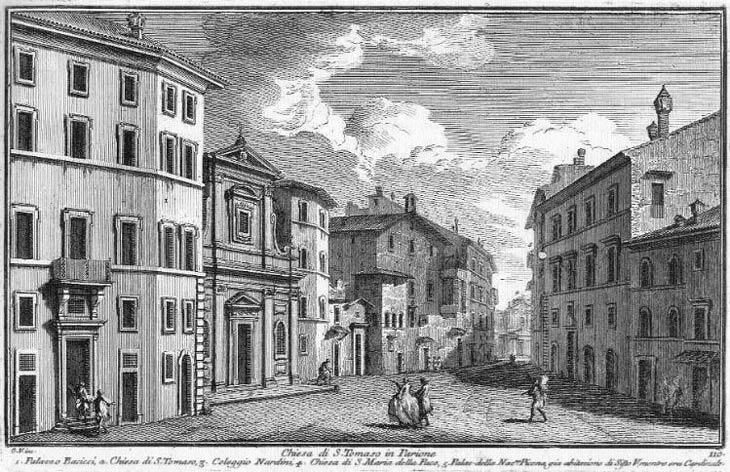 1) Palazzo Bacicci; 2) S. Tommaso; 3) Collegio Nardini; 4) S. Maria della Pace; 5) Palazzo della Nazione Picena.